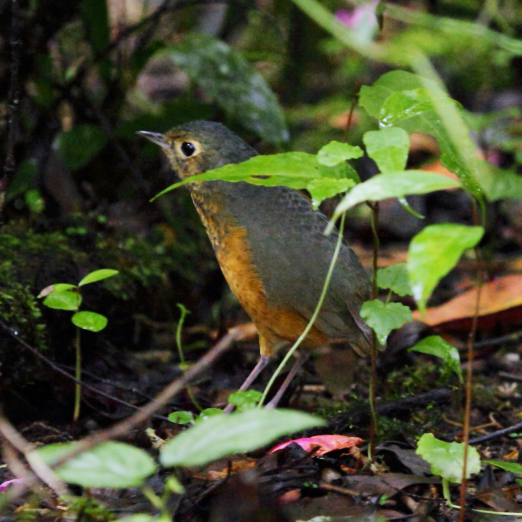 Speckle-breasted antpitta at São Luiz do Paraitinga - SP - Brazil